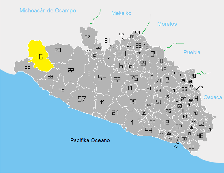 locator map